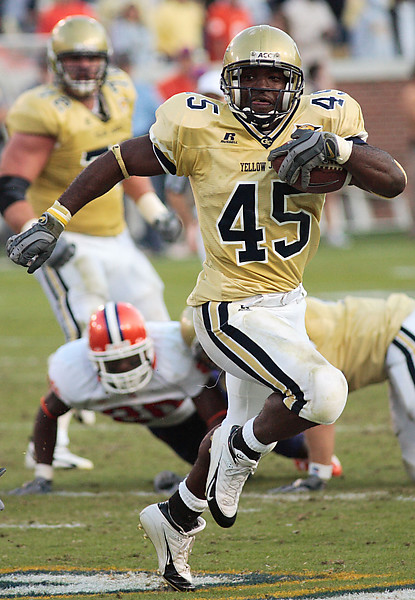 P. J. Daniels playing for the Georgia Tech Yellow Jackets football team.]